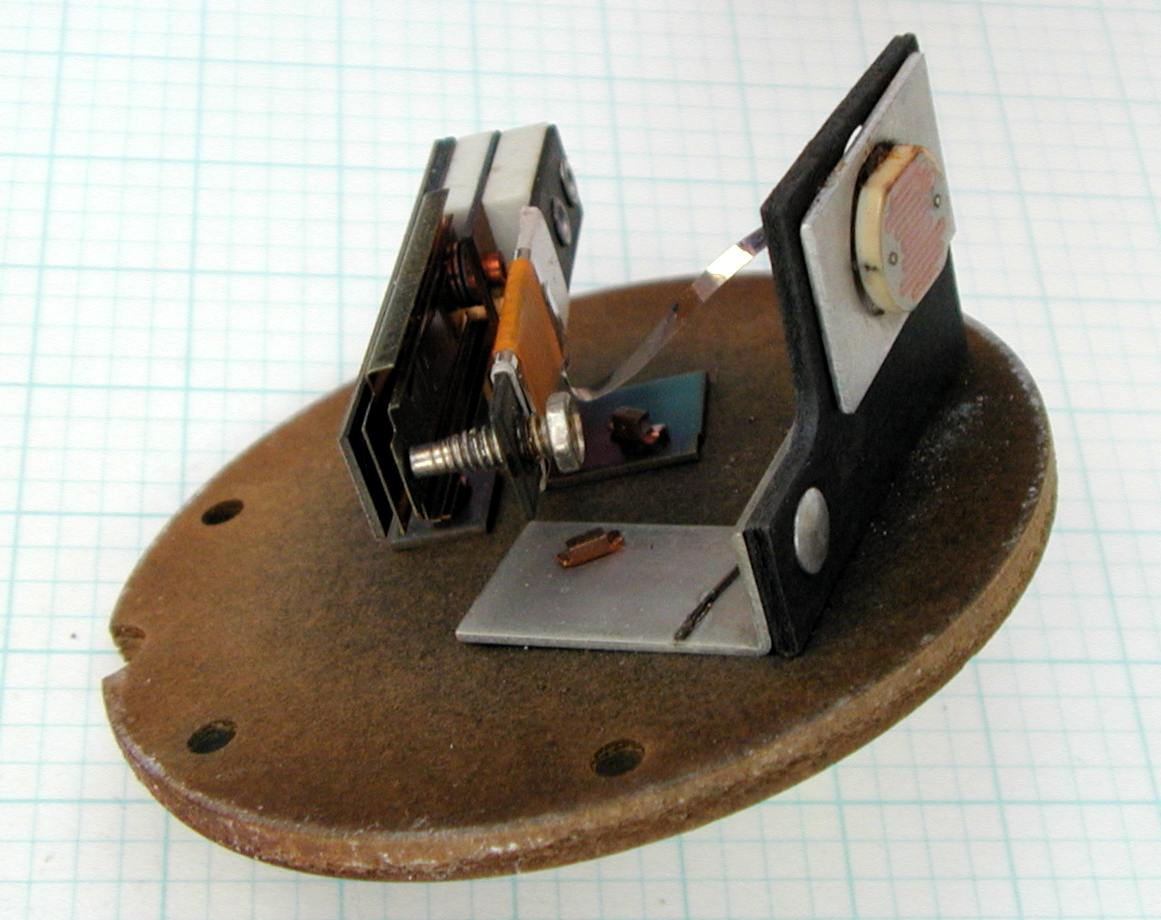 The photoelectric control for a typical American "streetlight" type lamp